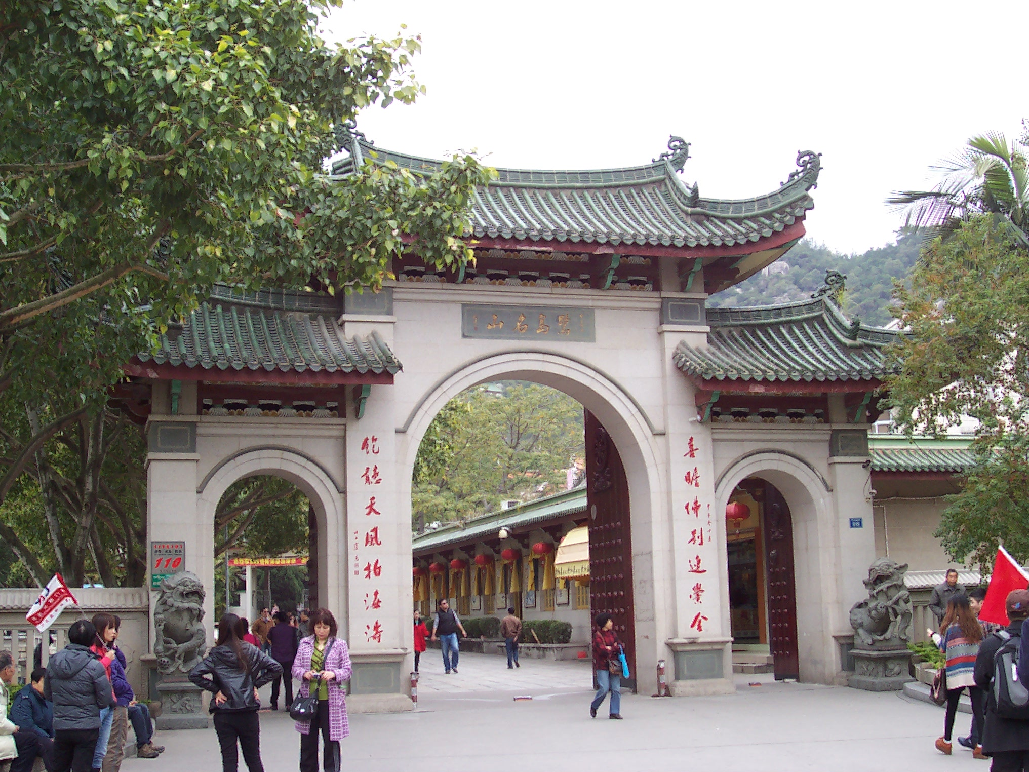 South Putuo Temple